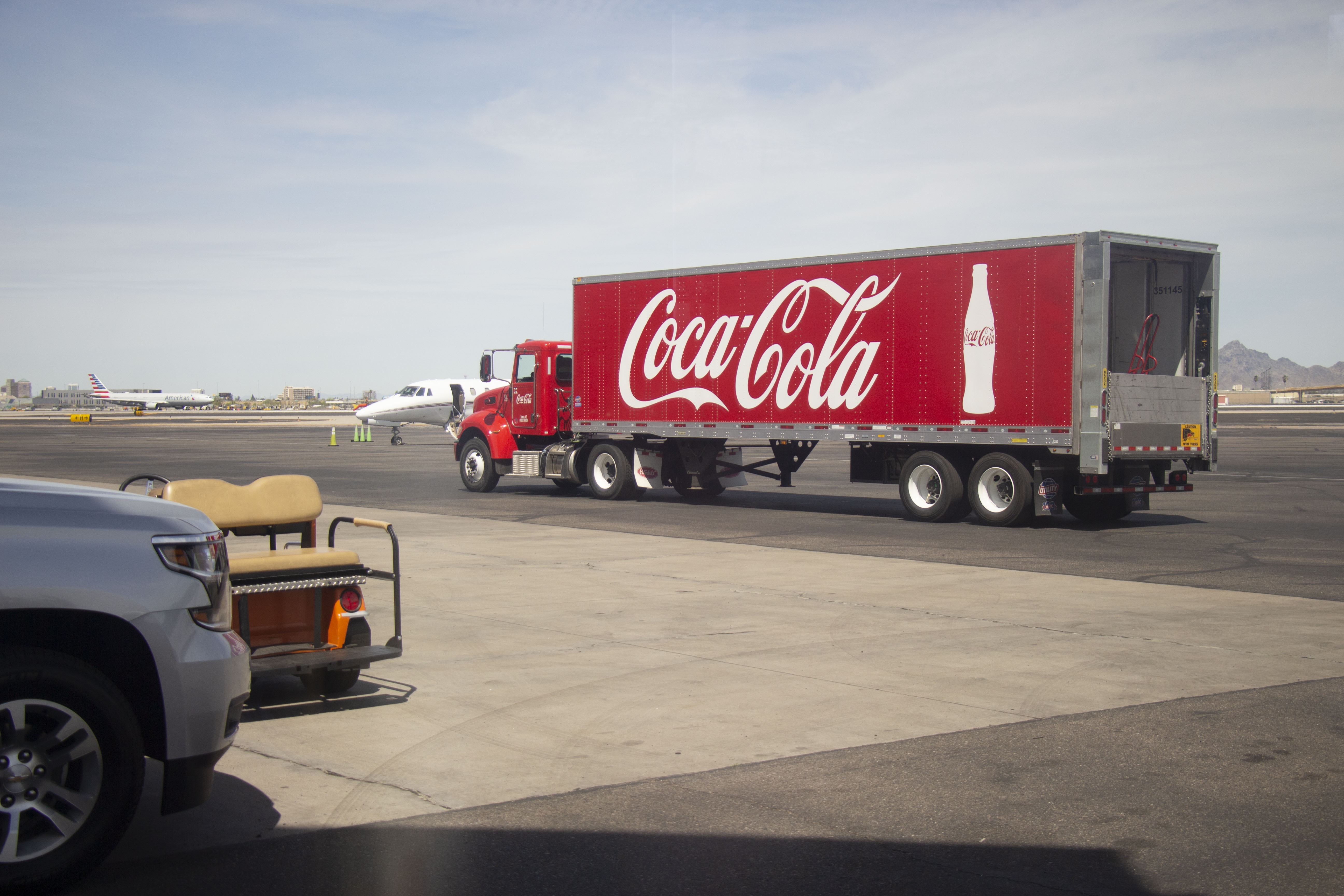 Coca-Cola Truck taken at Sky Harbor Airport in Phoenix on April 1st, 2019